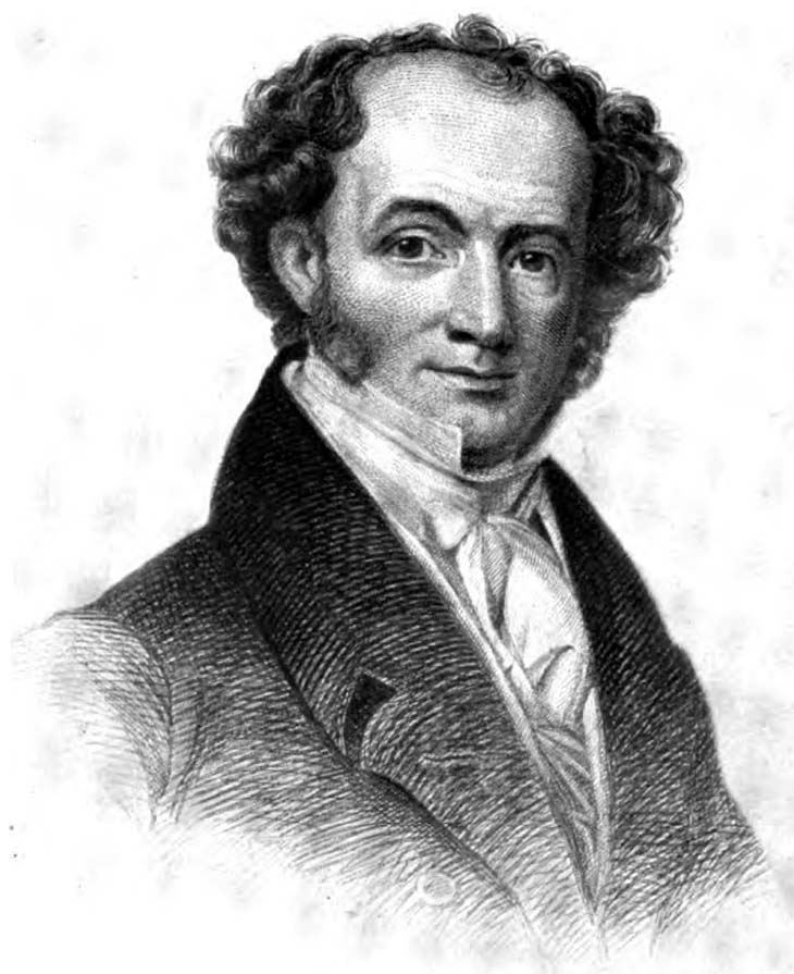 Portrait drawing of President of the United States Martin Van Buren